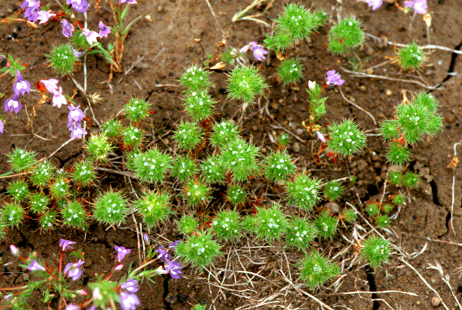 Needleleaf Pincushionplant (Navarretia intertexta) – Spring is here and the flowers are in full bloom at one of Oregon's natural gems. Located on the western edge of Eugene, Oregon, the West Eugene Wetlands (WEW) is a beautiful and rare area of grassland habitats. Comprised of less than one percent of the original native wet prairie, the WEW is home to over 200 species of wildflowers, plants, birds, and animals, including four threatened and endangered species: Fender’s blue butterfly, Kincaid’s lupine, Bradshaw’s lomatium, and Willamette daisy. The BLM's Eugene District, in collaboration with other Rivers to Ridges partners, works to protect and restore this vital wetland ecosystem in the Southern Willamette Valley. This unique project involves federal, state, and local agencies, as well as non-profit organizations, working together to manage lands and resources in an urban area for multiple public benefits. Each year, Willamette Resources & Educational Network (WREN) provides hands-on, minds-on environmental education to over 1,500 local students. For directions or to plan a visit to the West Eugene Wetlands